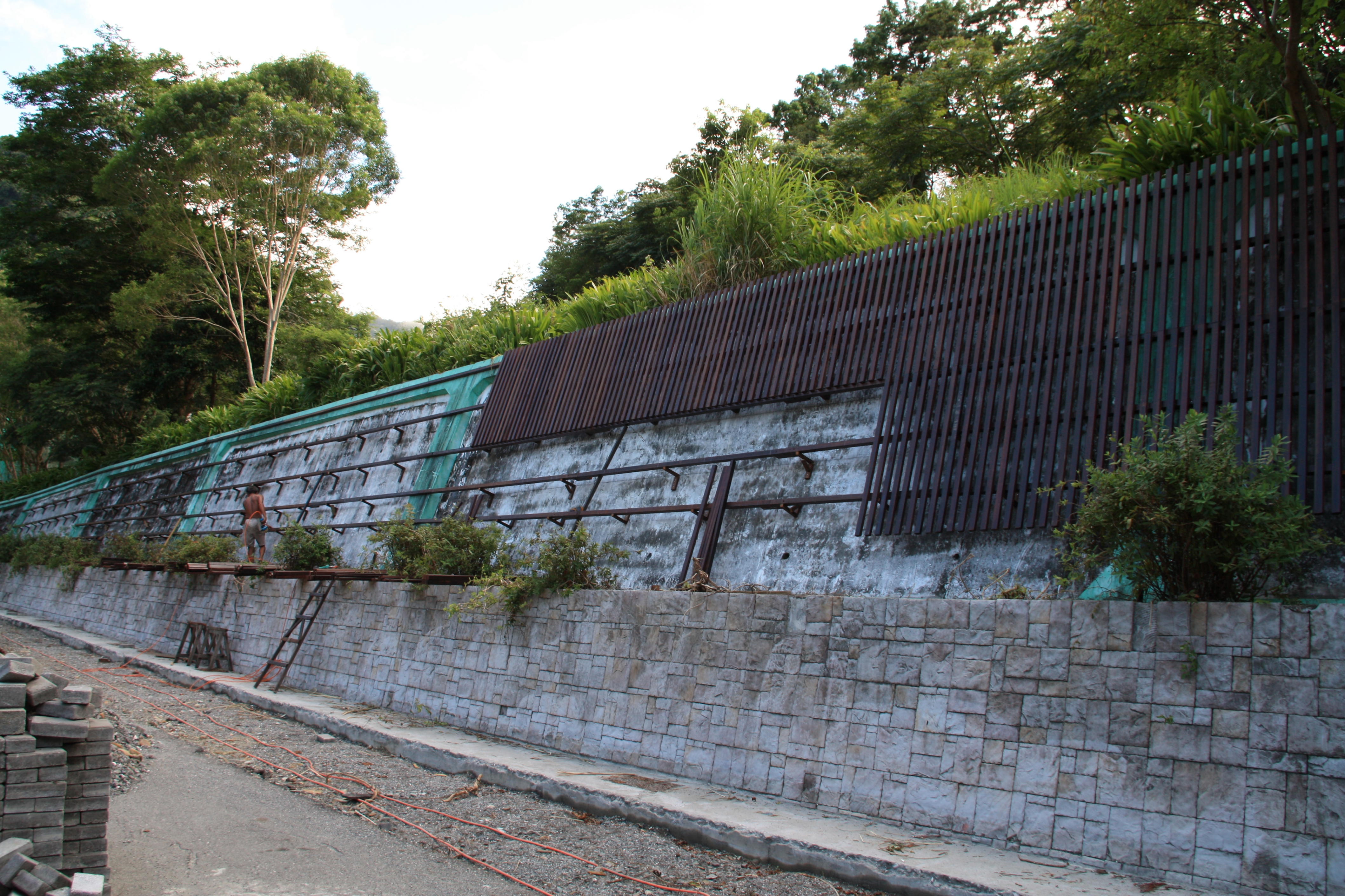 Taitung County Beinan Township Jhihben National Forest Recreation Area